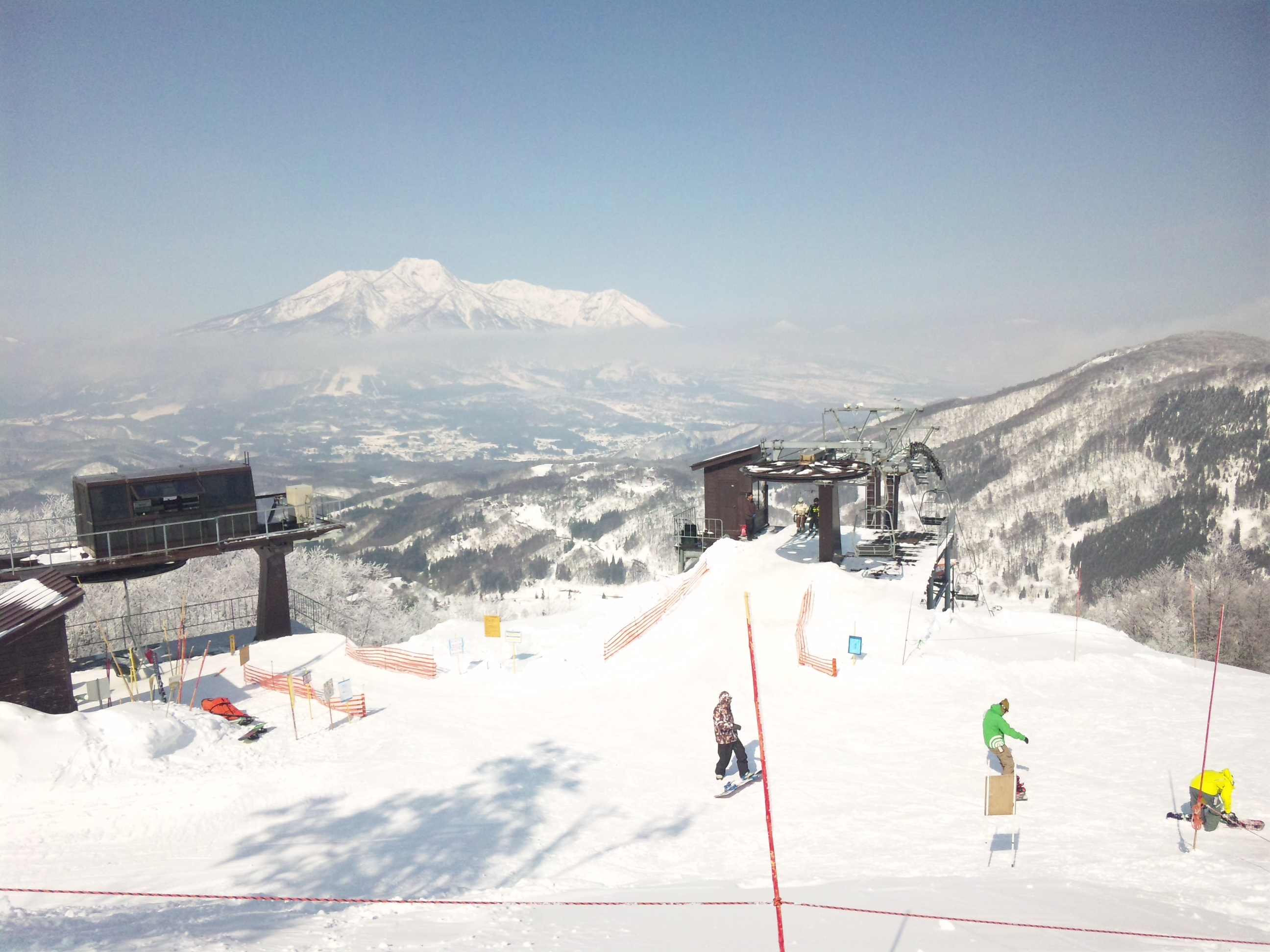 Ski field of Tangram in Nagano Prefecture, Japan. Mount Myoko in the background.